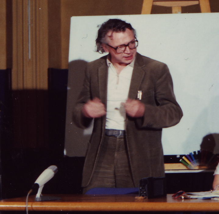 Rudolf Bahro in Zürich, 1991